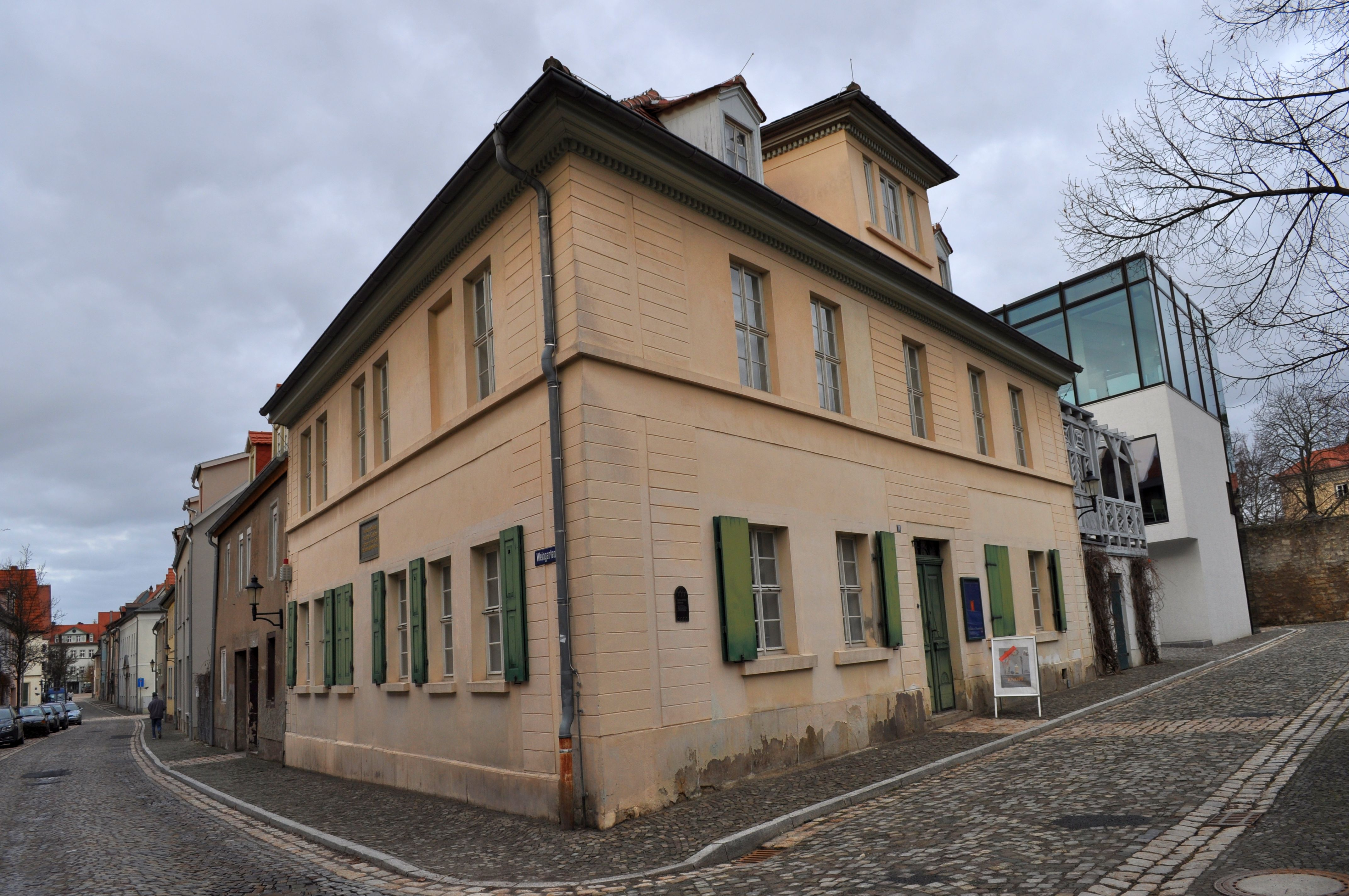 Nietzsche's house in Naumburg, Weingarten 18